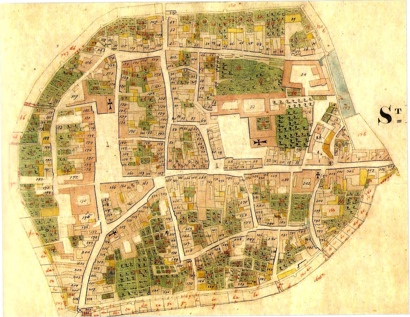 Map of St. Pölten, 1821